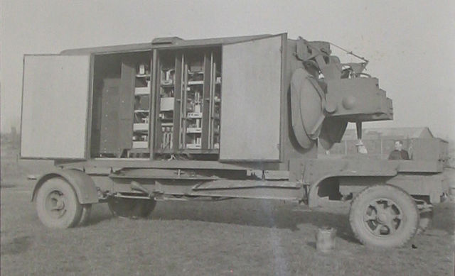 This GL Mk. IIIc radar has been opened up to display the interior. The system is otherwise locked down for transit, with the parabolic reflector antennas rotated forward. Operators sat on the other side of the cabin during operation.